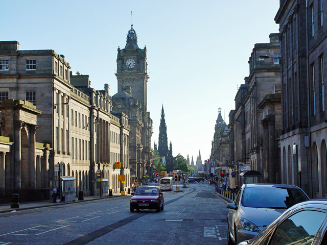 Princes Street Edinburgh Looking slightly south of west.